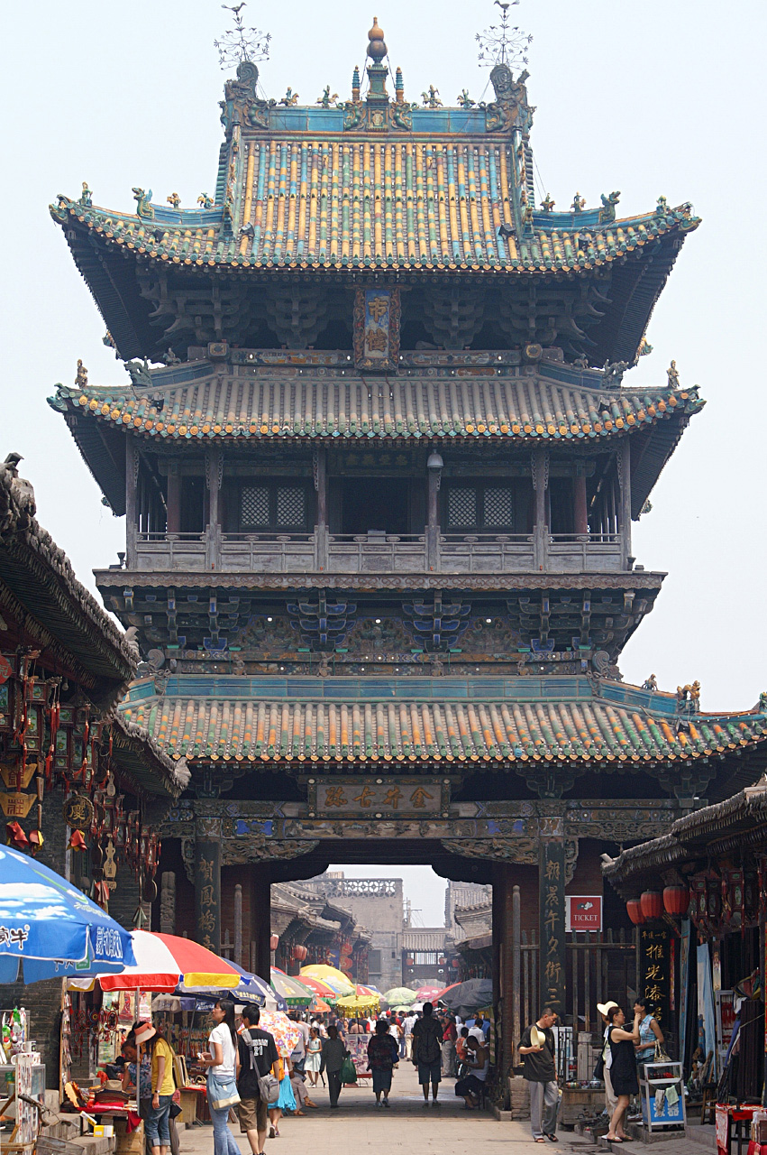 The tower of Ping Yao City, Shanxi, China 平遙古城（市樓）